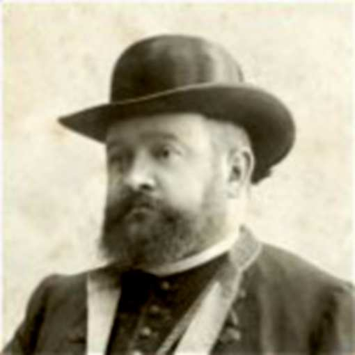 Basilio Hosszu(1866–1916), Bishop of the Diocese of Lugoj of the Romanian Greek Catholic Church from 1903 to 1911; Bishop of the Diocese of Gherla, Armenopoli, Szamos-Ujvár of the Romanian Greek Catholic Church from 1911 to 1916.